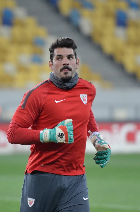 Iago Herrerín, player of Athletic Bilbao